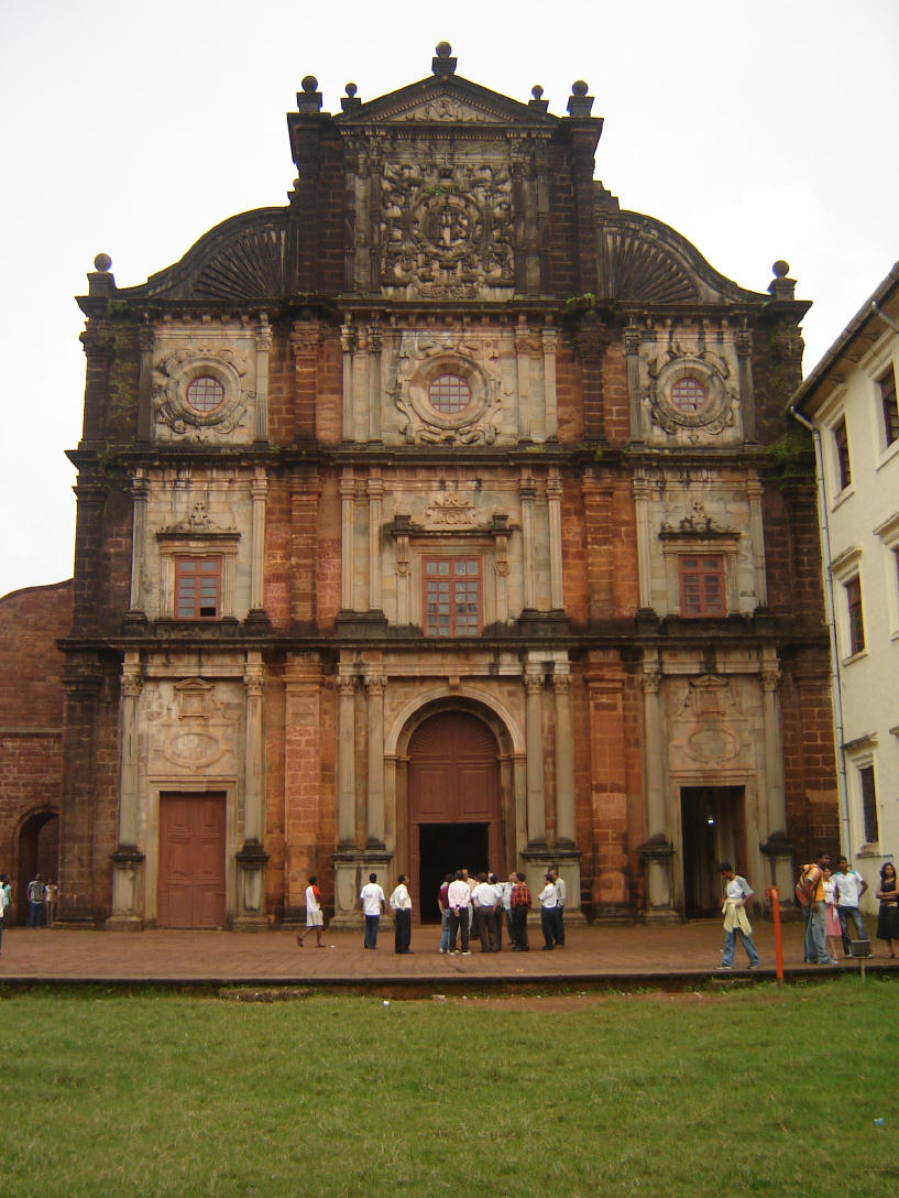 The Basilica of Bom Jesus, Goa Velha